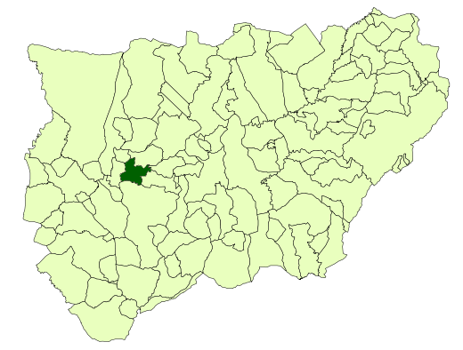 Situation of the municipality of Mengíbar (Jaén, Spain).